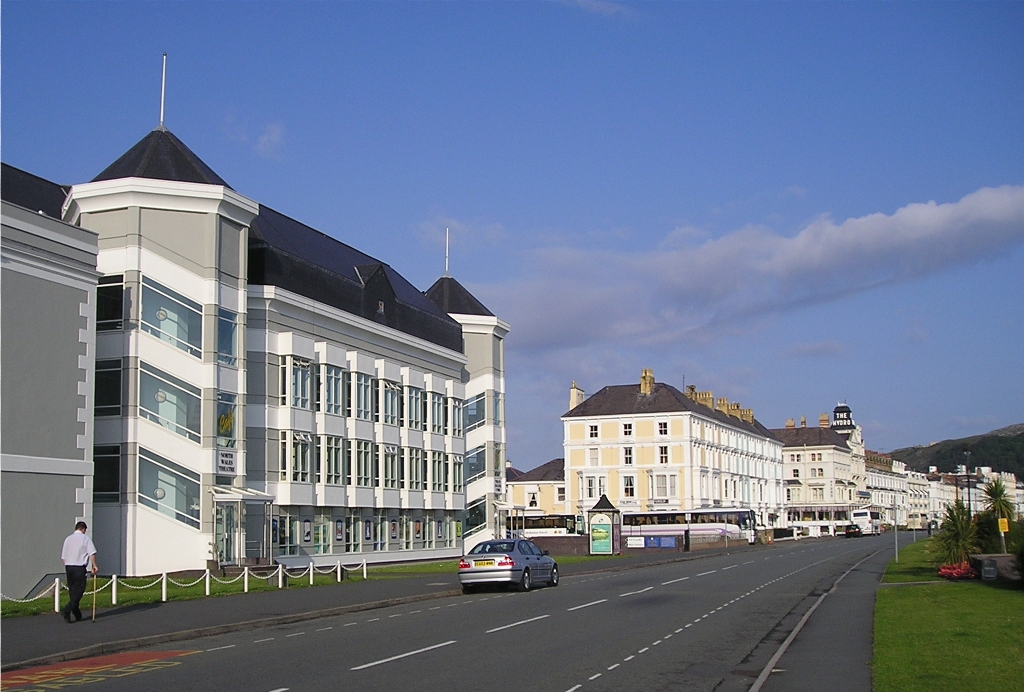 Venue Cymru, Llandudno, Conwy County. Taken by me, Noel Walley on 23/07/2004